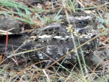 Sombre Nightjar (Caprimulgus fraenatus) - Gilgil, Kenya